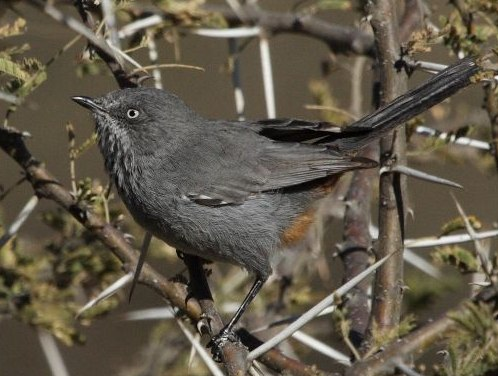 Chestnut-vented Titbabbler (Sylvia subcaeruleum Syn. Parisoma subcaeruleum) near Weenen, KwaZului-Natal, South Africa